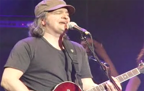 Daniel Bélanger at Métropolis of Montreal.